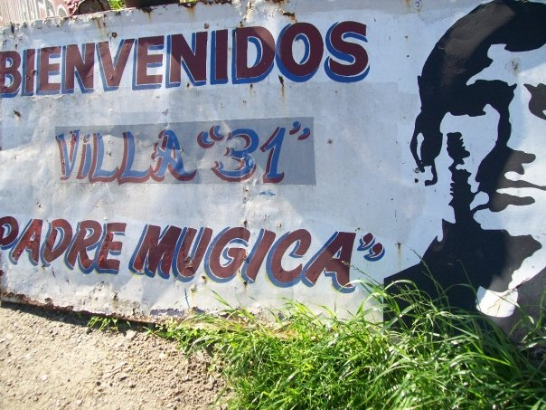 Welcome to Shanty Town No. 31 "Padre Mugica"